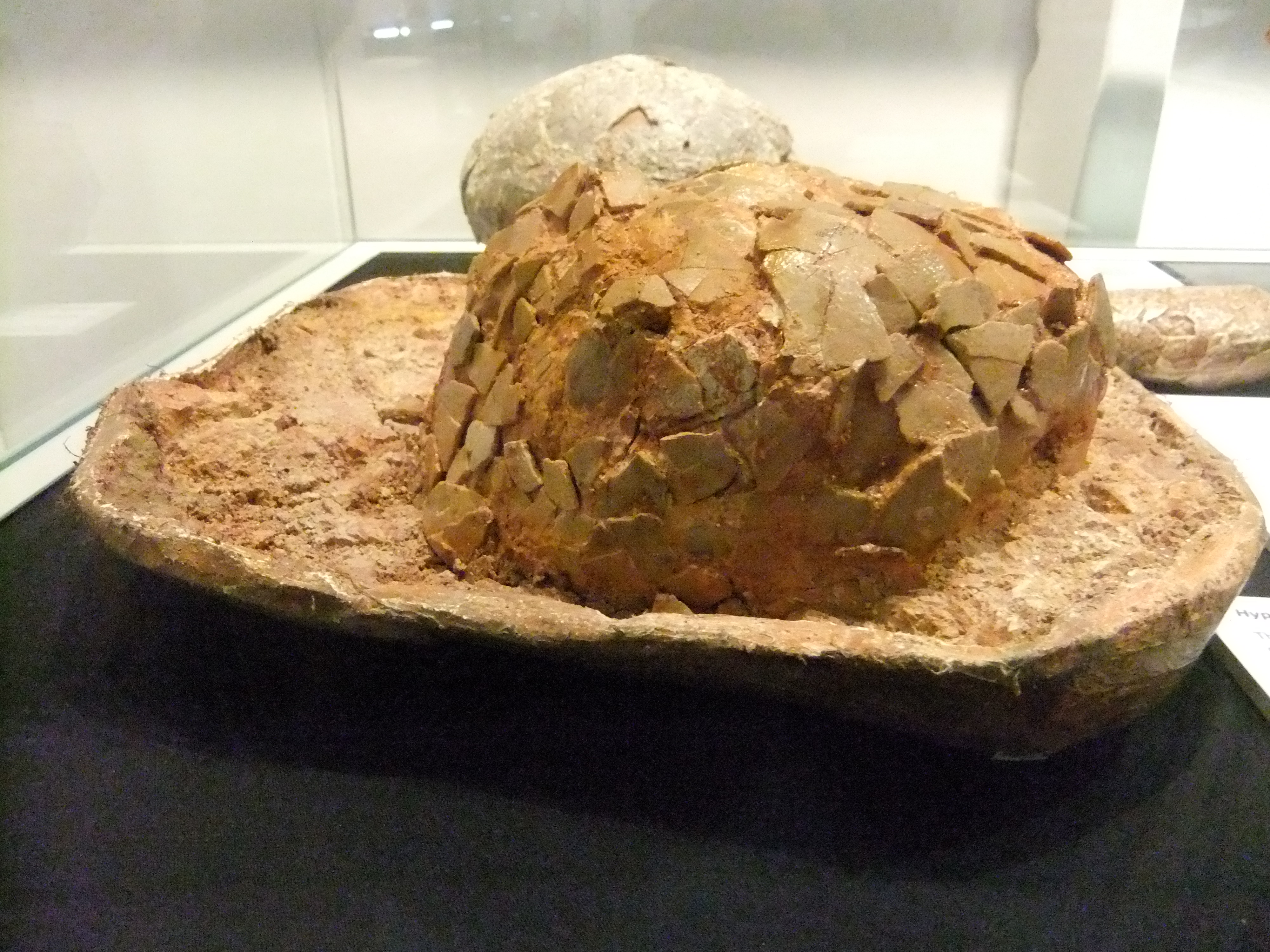 Hypselosaurus priscum egg, Wrexham Museum, Wales.